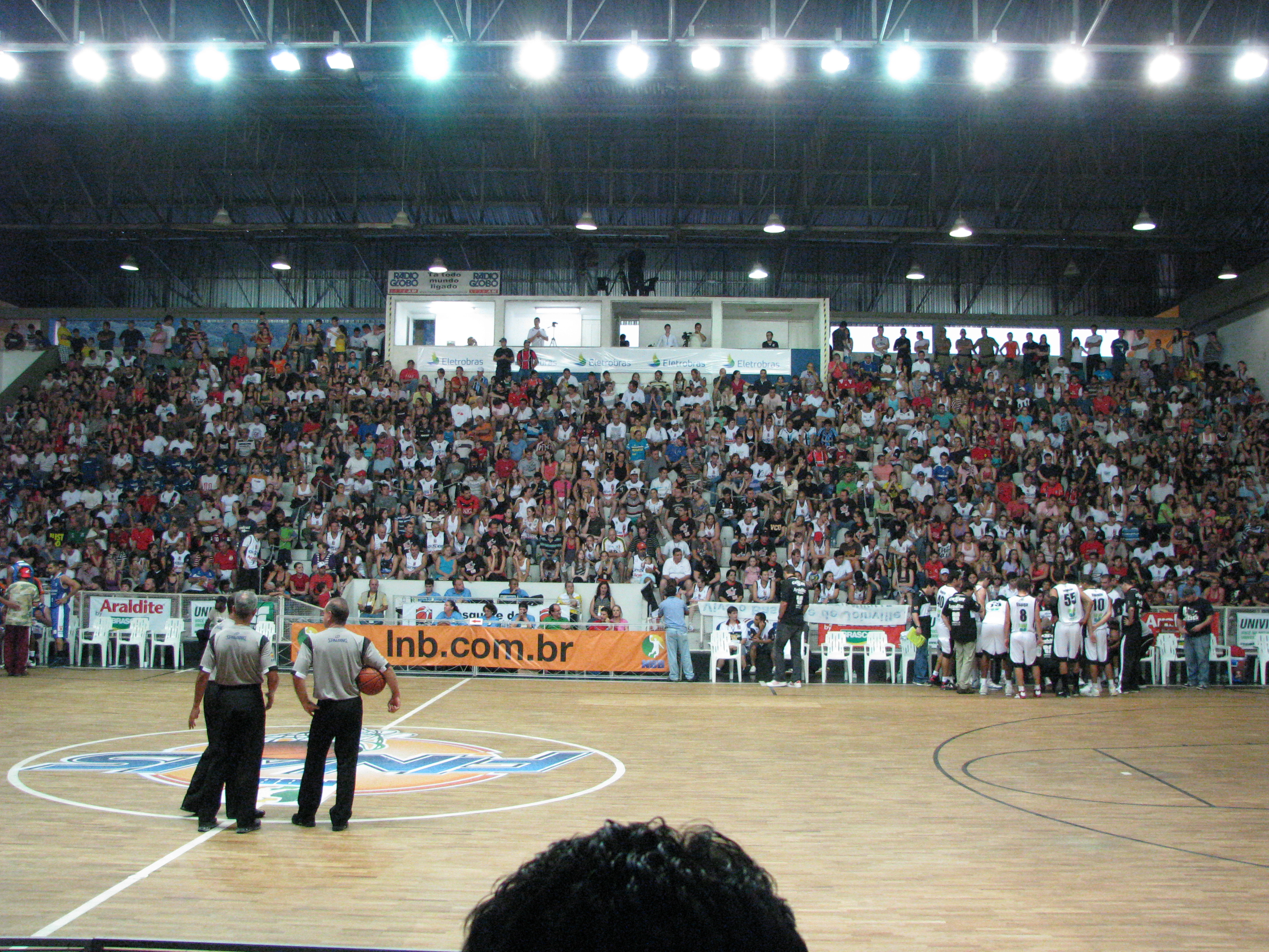 Ginásio Ivan Rodrigues lotado em jogo de playoff do NBB